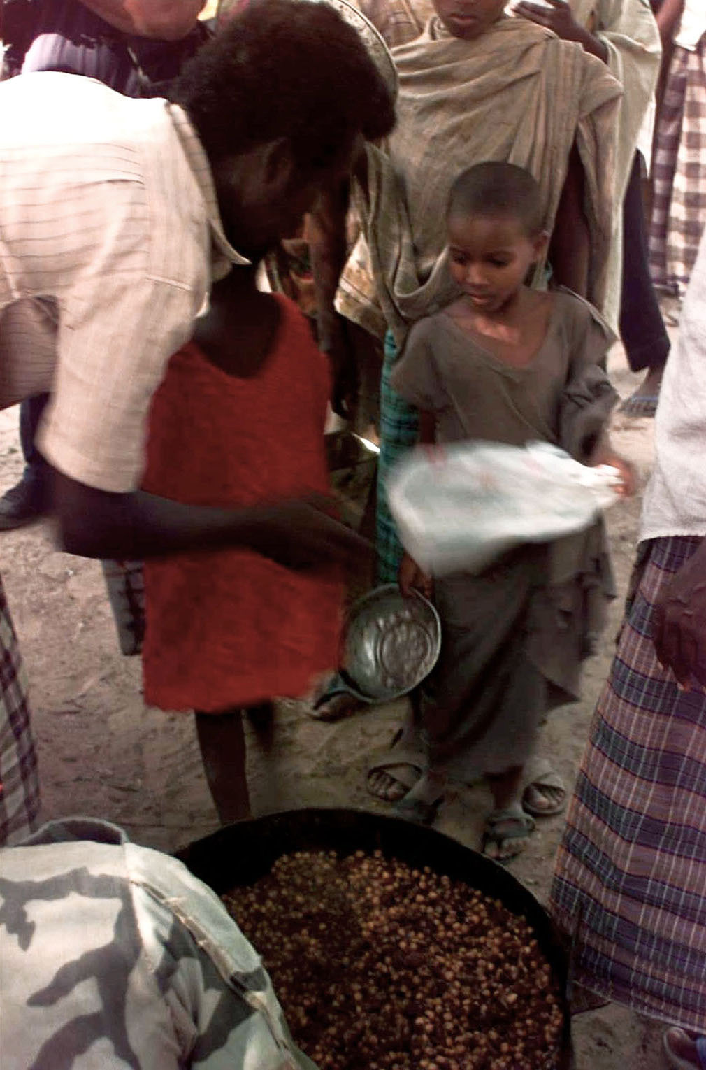 Shot from a high angle down at a Somali man, bent over and handing out a mixture of corn and beans to a small child at one of the food distribution points in Belet Huen, Somalia. Other Somali children are partially seen in the background. This mission is in direct support of Operation Restore Hope.